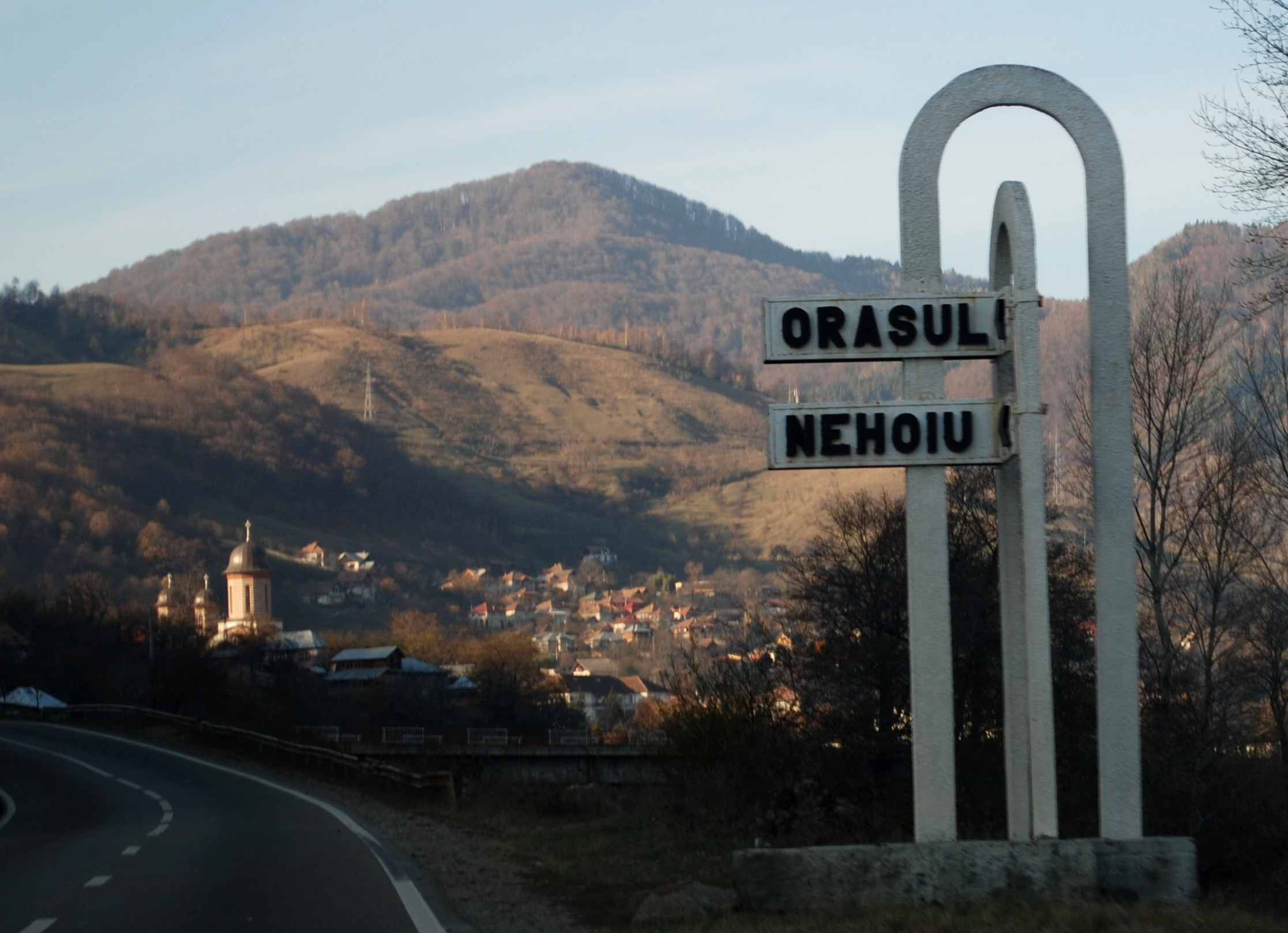 The entrance to the town of Nehoiu, Romania, via DN10, coming from Buzău